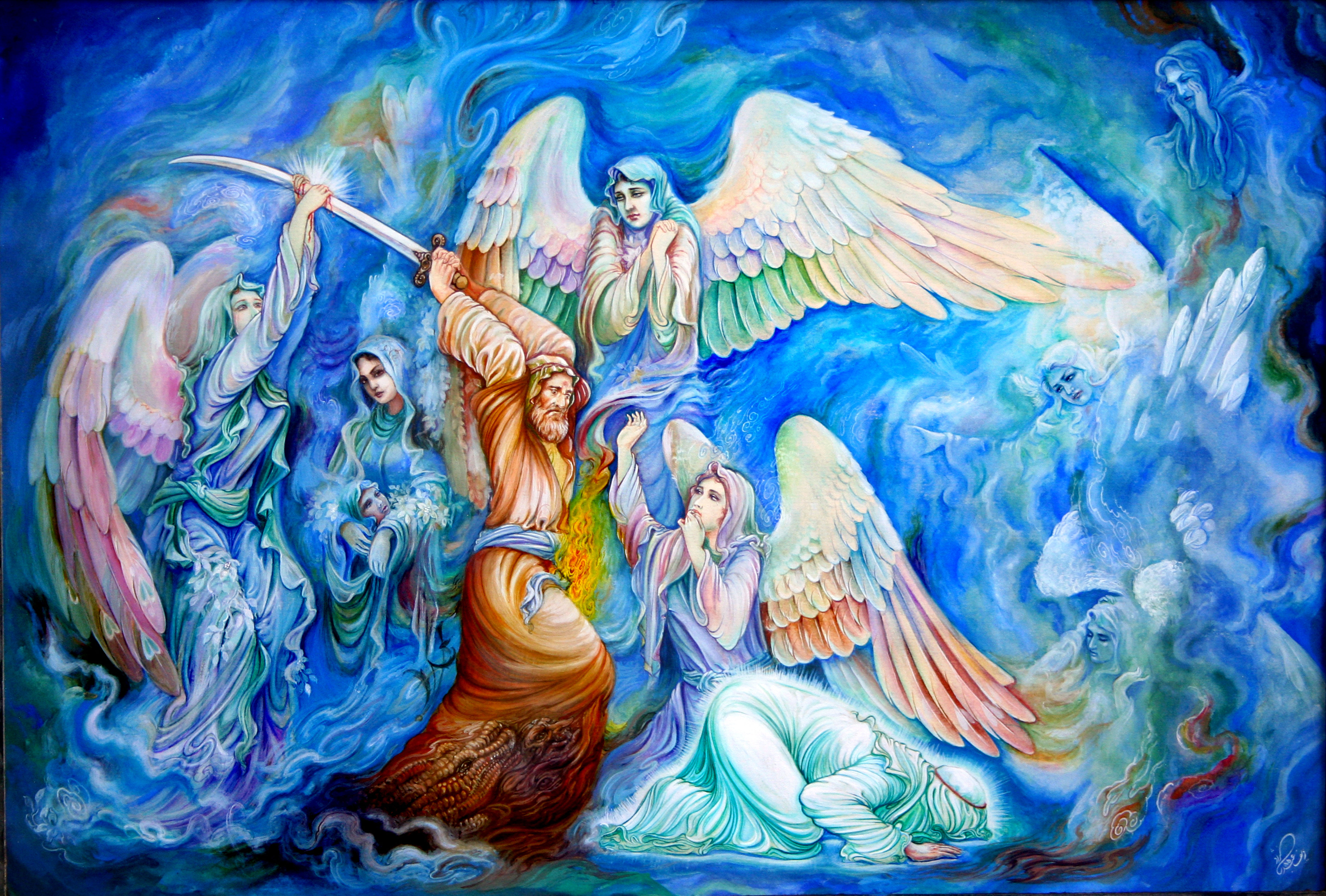 This painting by Yousef Abdinejad is entitled "Martyrdom of Imam Ali". It depicts Ali being assassinated by Ibn Muljam. There are also angels prohibiting Ibn Muljam from hitting Ali by sword.